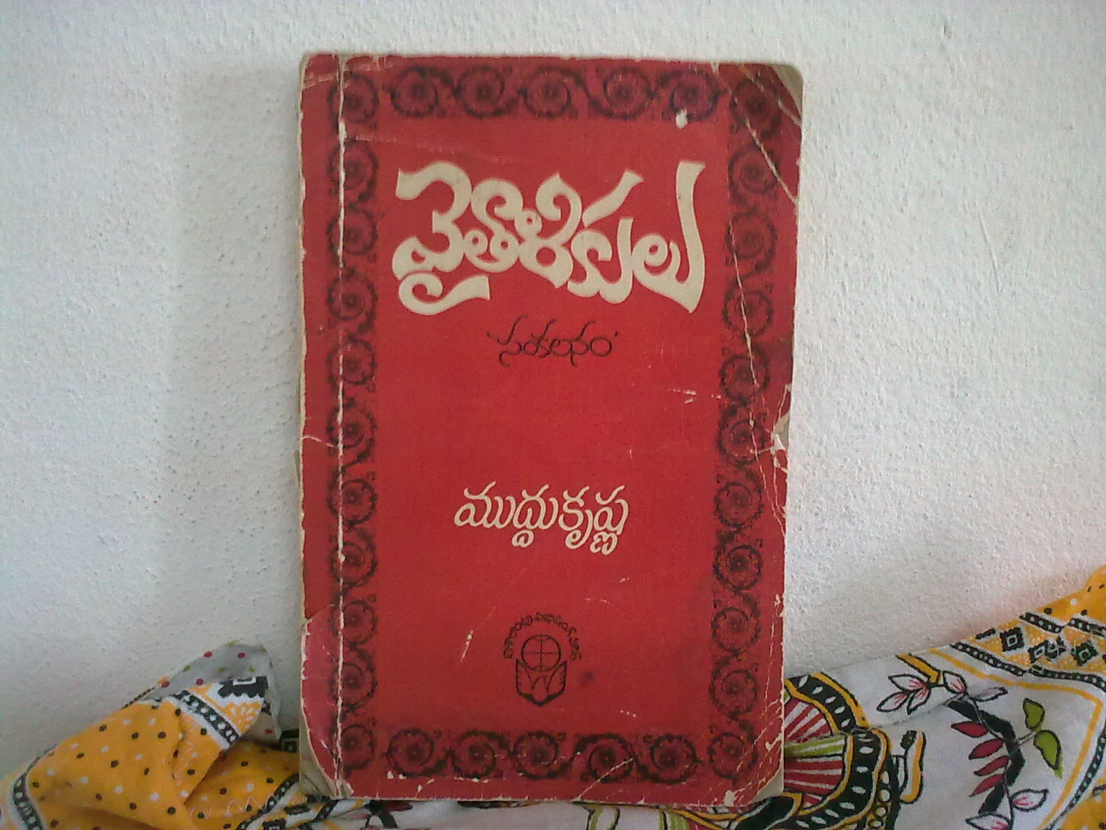 a photograph of a telugu book by name vaitalikulu,by the uploader